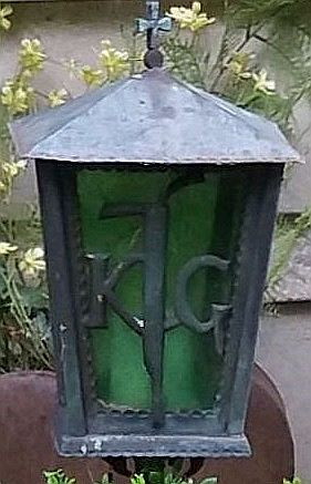 Innviertler Künstergilde lantern from the grave of the artists Louis Hofbauer and Karl Hosaeus. The latter was a leading member of the Innviertler Künstergilde. Grave location: Salzburger Kommunalfriedhof, Gruppe 58, Reihe 1, Ordnung 1, Grabnummer: 021.